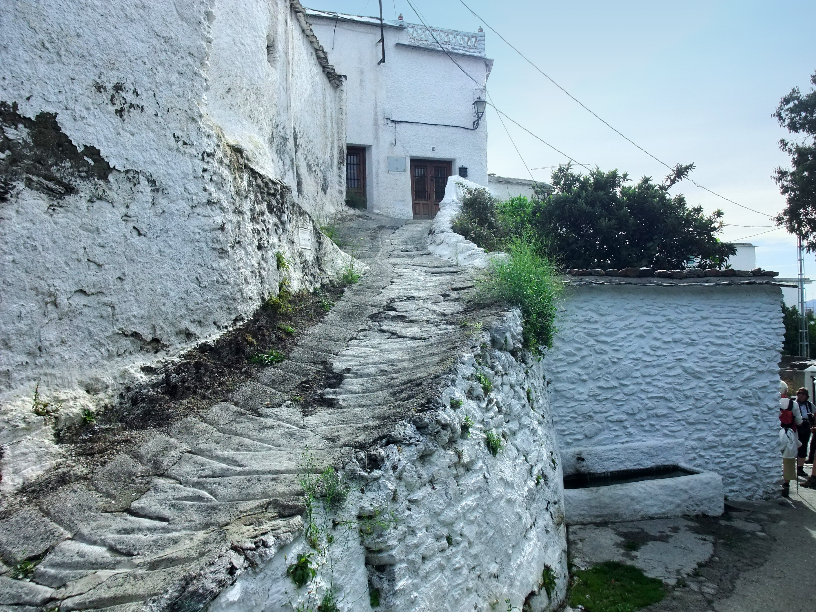 Street in Pitres, Granada in Spain